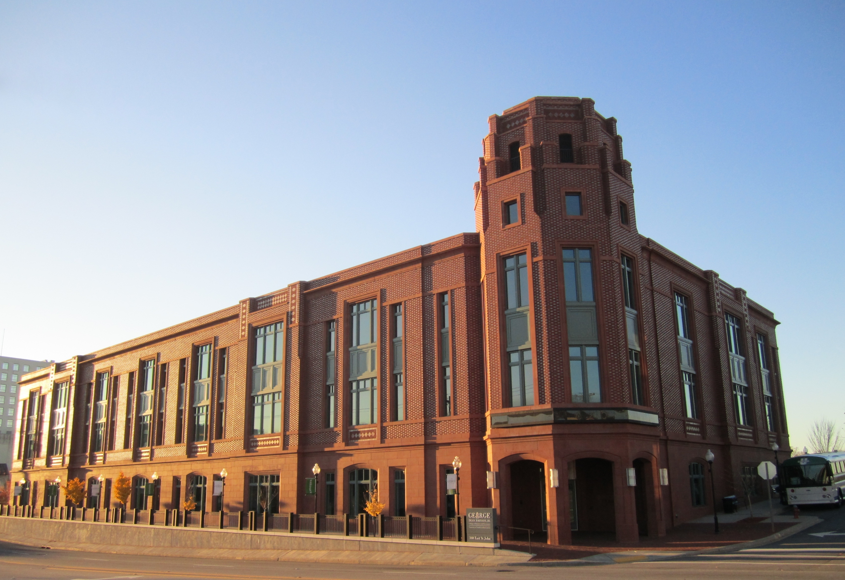 USC Upstate's George Dean Johnson, Jr. College of Business and Economics (also known as "The George") is located in downtown Spartanburg.